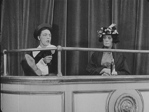 Shot from the movie theater in 1921.